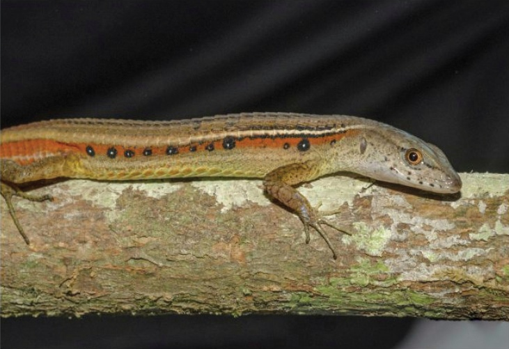 Reptilian diversity. Examples of reptiles recorded in the Serra da Mocidade mountain range